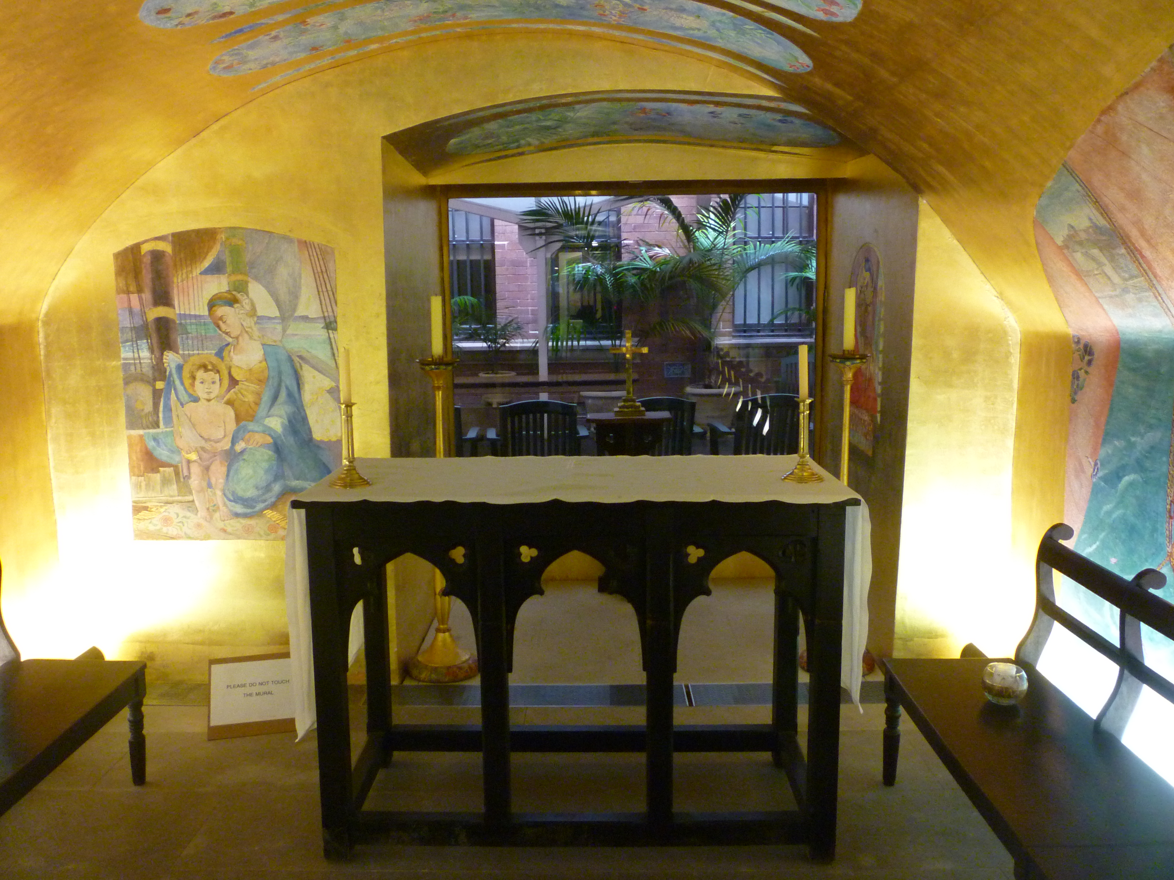 Mural designed by Ethel Anderson. Painted in 1929 by the Turramurra Wall Painters' Union. Restored in 1992.